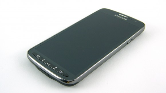 This is the hardware of the Samsung Galaxy S4 Active.